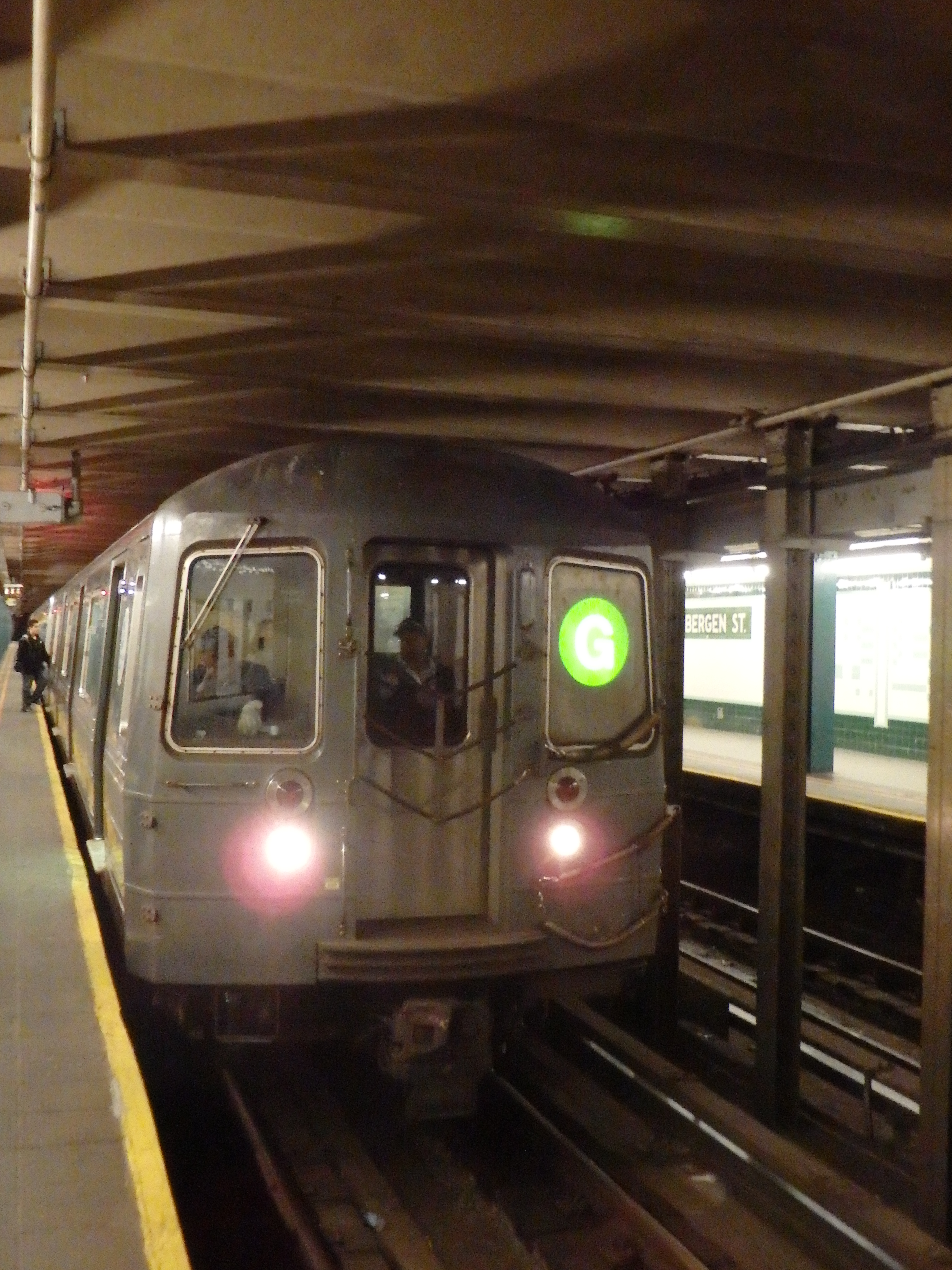 A trip to the recently reopened Smith/9 St station on the F & G lines. It is the highest subway station in the world, spans the Gowanus Canal and straddles the 9 St lift bridge over the Gowanus Canal.